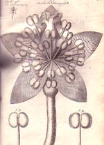 Plate from Nehemiah Grew's Anatomy of Plants, 1682.